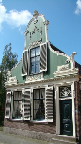 Wooden zaanstyle houses at Krommenie